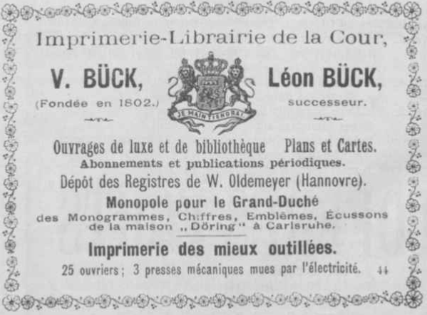 Advertisment for the Luxembourgish printing press Victor Bück (1895).